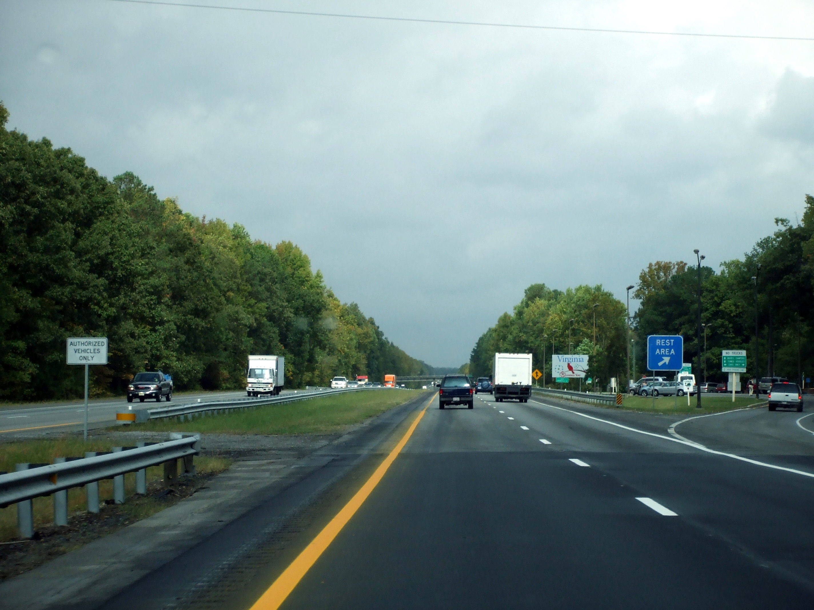 Interstate 95 entering Virginia from North Carolina.